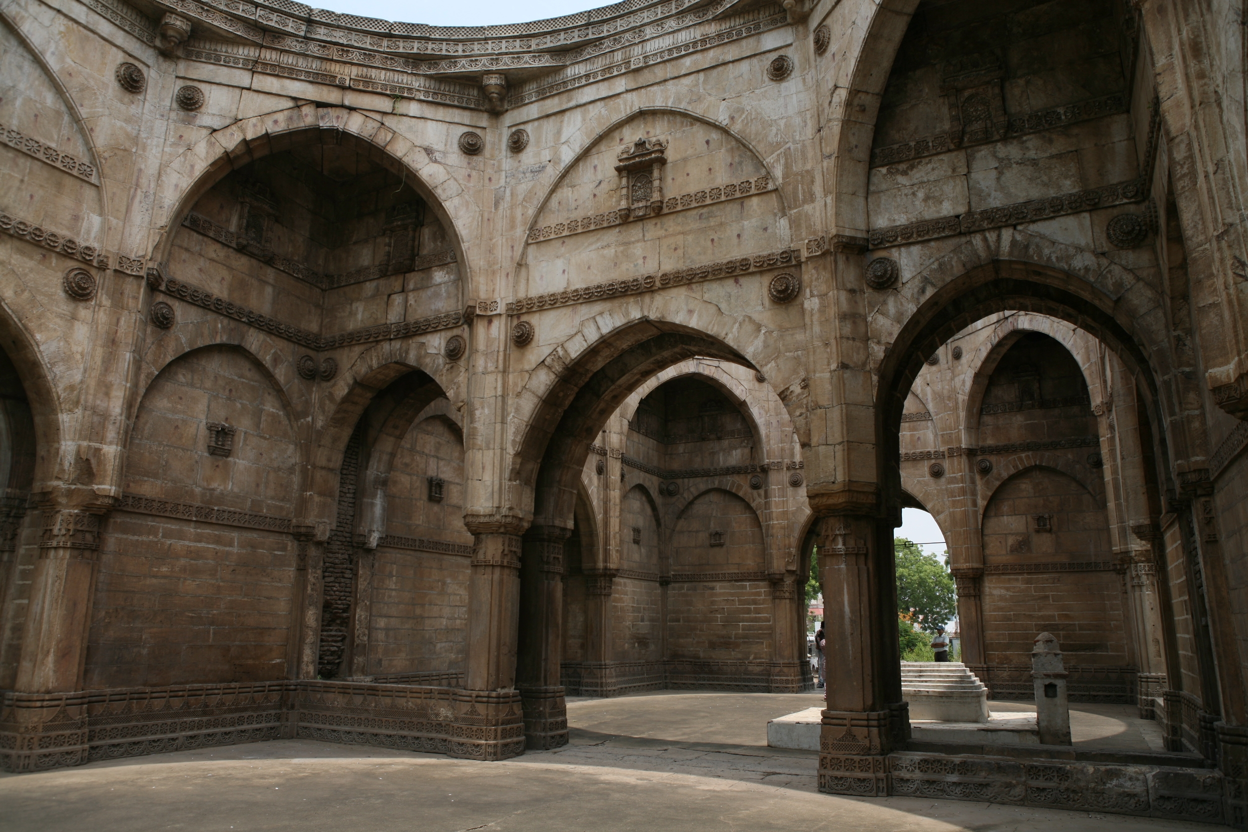 Tomb of Sikander Shah